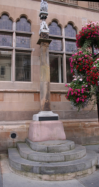 Old Market cross and Clach na Cudainn Set in the top step of the cross is a smooth worn flat stone - the Clach na Cudainn - the coronation stone of the Lord of the Isles.